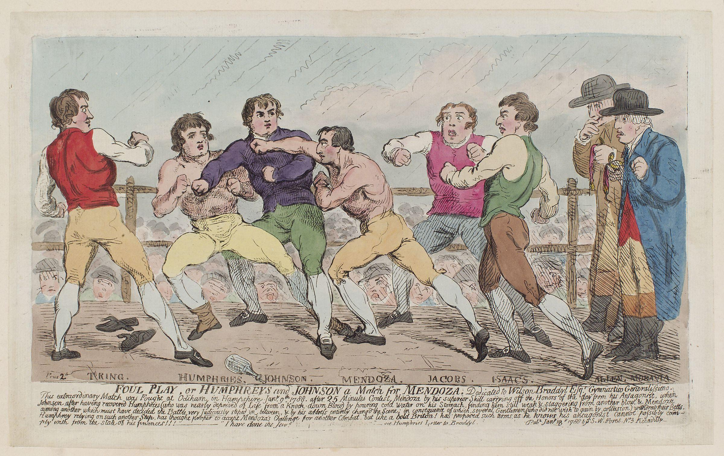 Foul play, or Humphreys and Johnson a match for Mendoza...' (Richard Humphries; Daniel Mendoza), by Samuel William Fores (floruit 1841), published 1788. According to the NPG's website the work was published prior to 1859, and so the author is reasonably presumed dead by 1939.